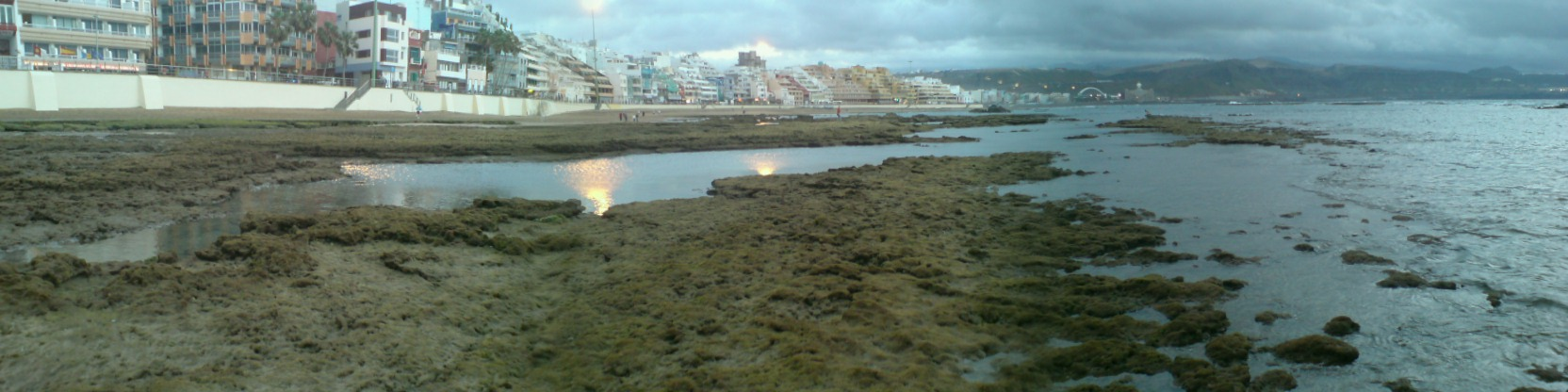 Panoramic view at dusk from the "Los Lisos". Las Canteras Beach. Las Palmas de Gran Canaria. Canary Islands.